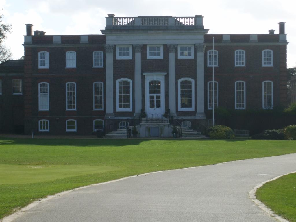 Sudbrook House, Sudbrook Park, Petersham, developed by John Campbell, 2nd Duke of Argyll in the early 18th century. Designed for Argyll by James Gibbs, it is considered a fine example of Palladian architecture, and for over a century both house and surrounding park have been the home of the Richmond Golf Club.